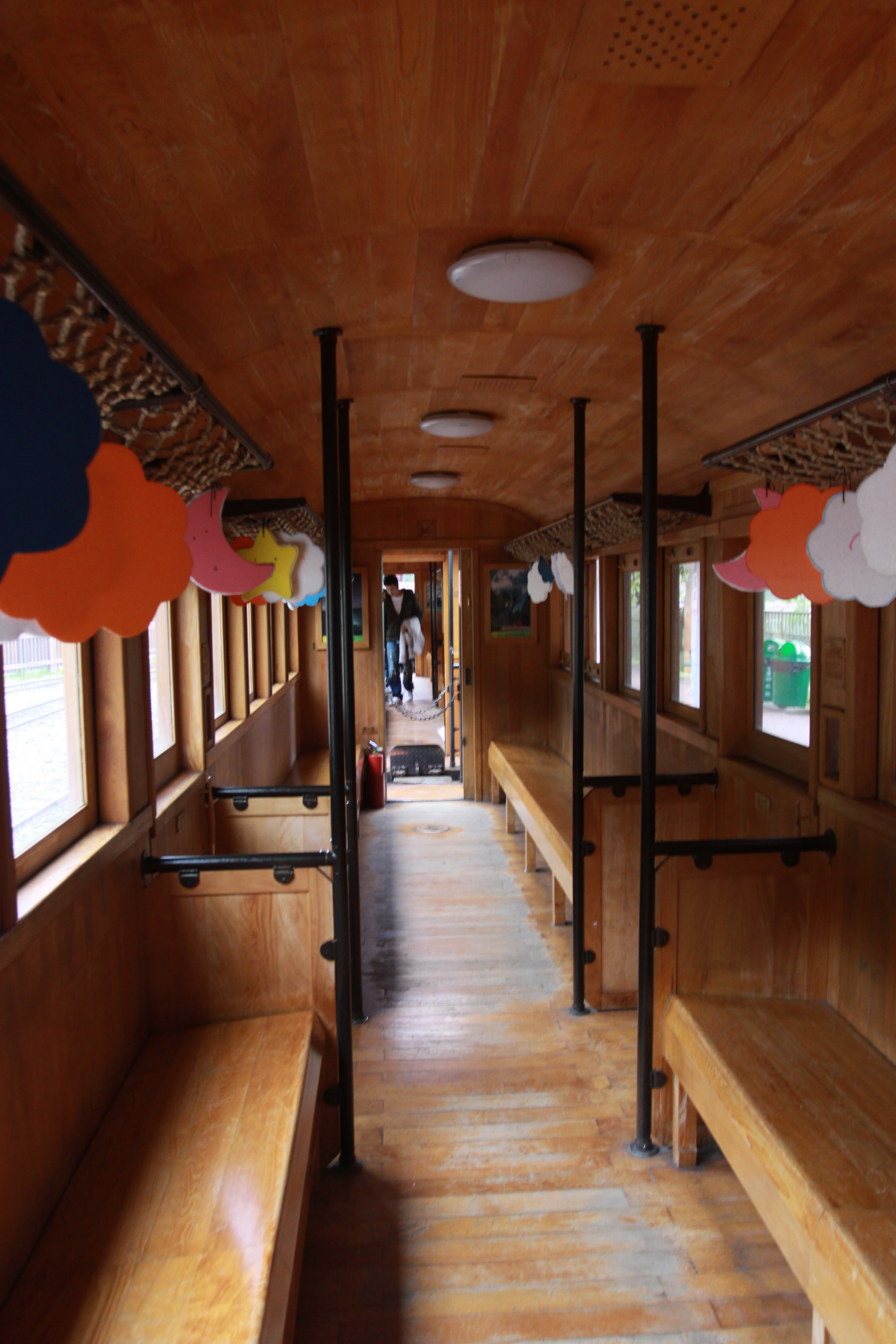 Alishan Forest Railway Cypress Railroad Car Interior